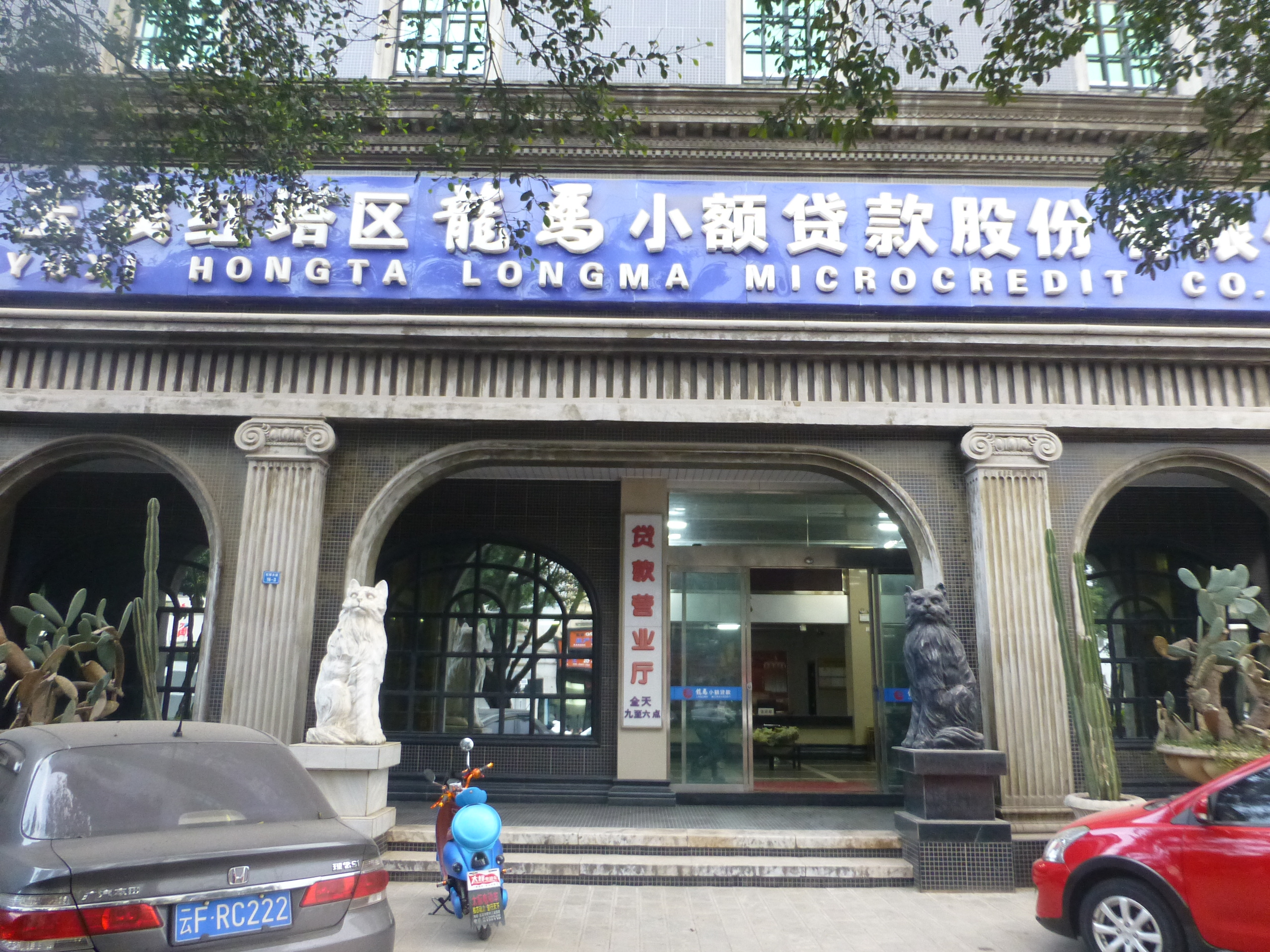 Downtown Yuxi, Yunnan. Statues of Black cat and White cat in front of a financial company's office